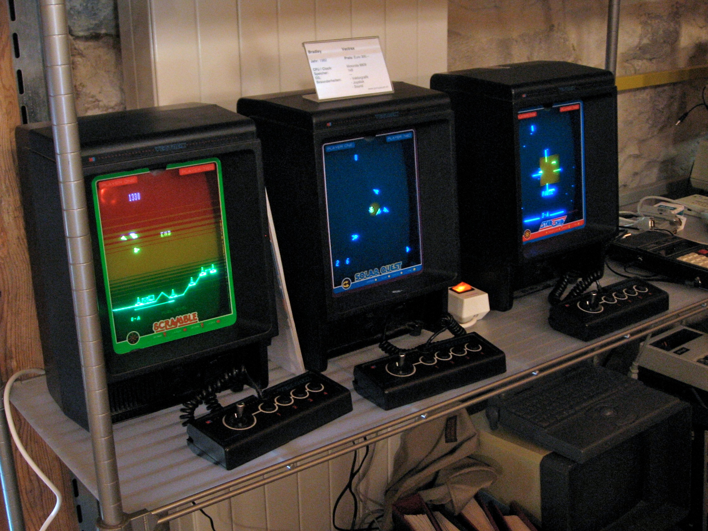 Three Vectrex machines